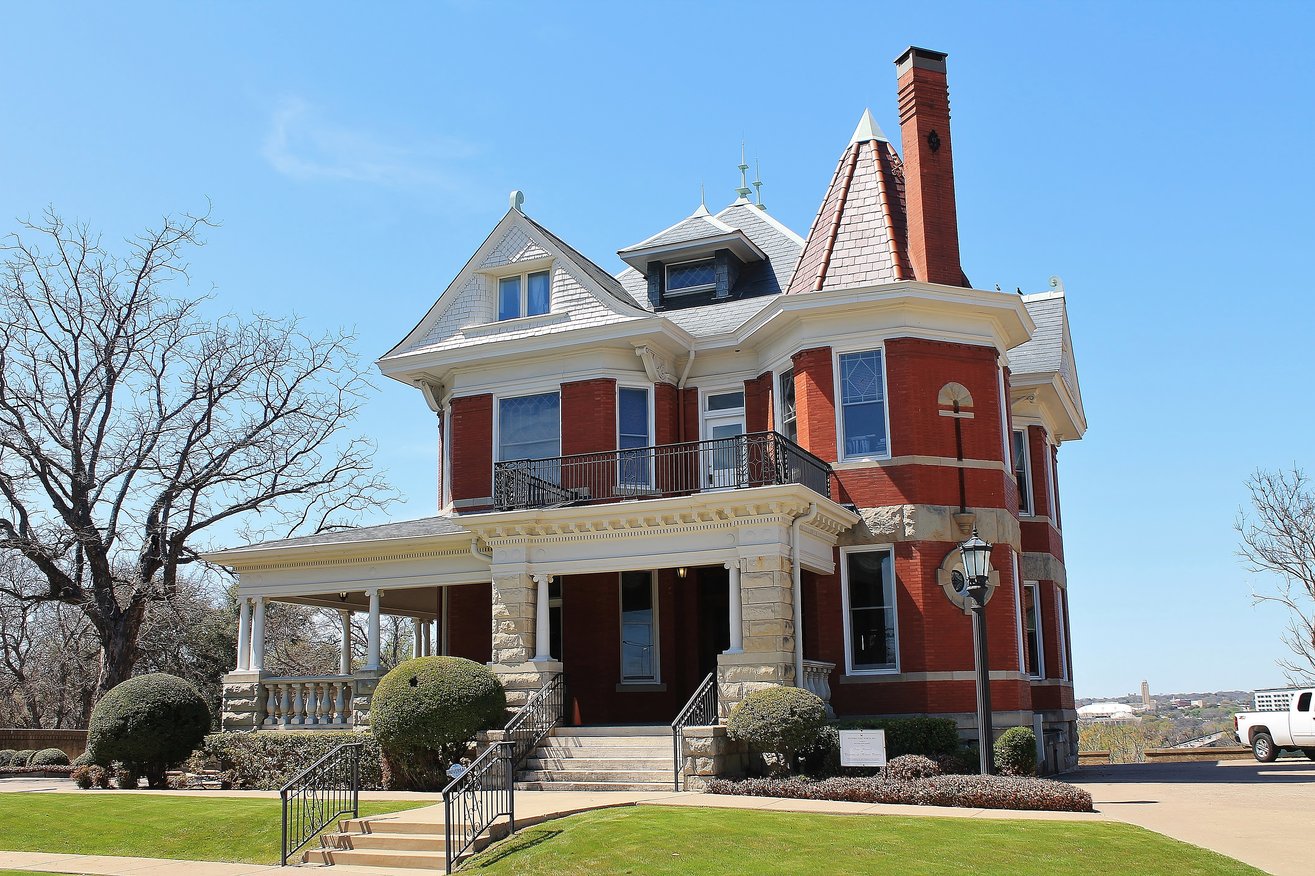 Pollock-Capps House in Tarrant County, Texas.